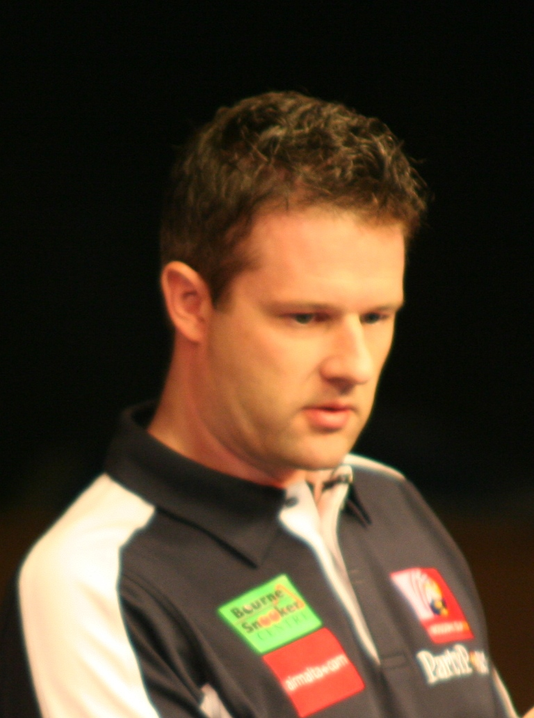 English pool player Mark Gray at the Mosconi Cup 2008 in Malta.